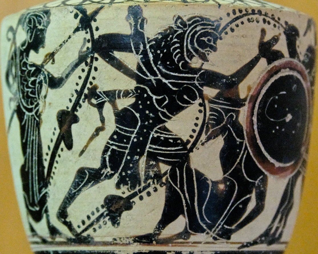 Herakles fighting Geryon (on the far right); Eurytion lays wounded at their feet, Athena (on the left) watches the scene. Attic white-ground black-figure lekythos.